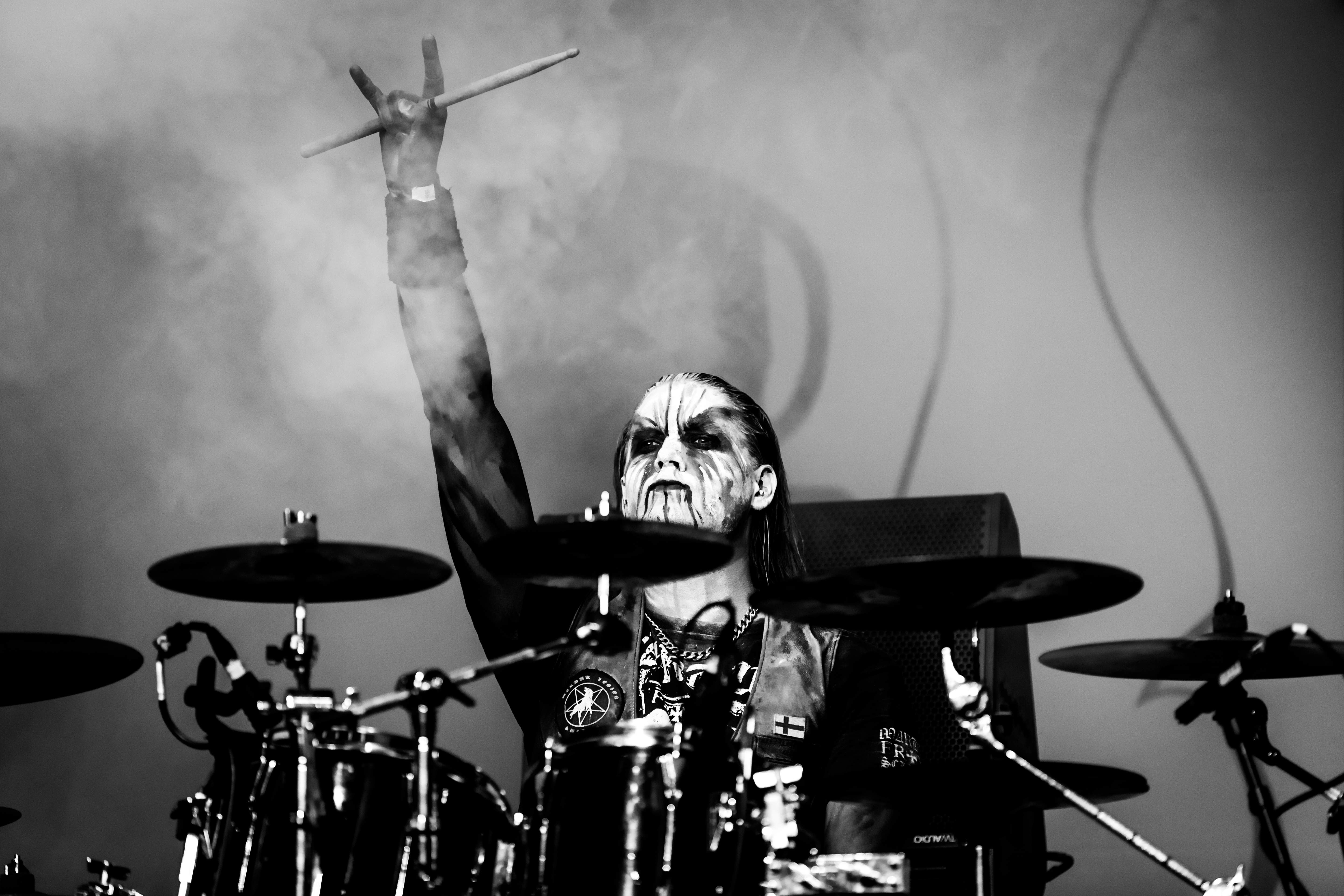 Marduk - Wacken Open Air 2016